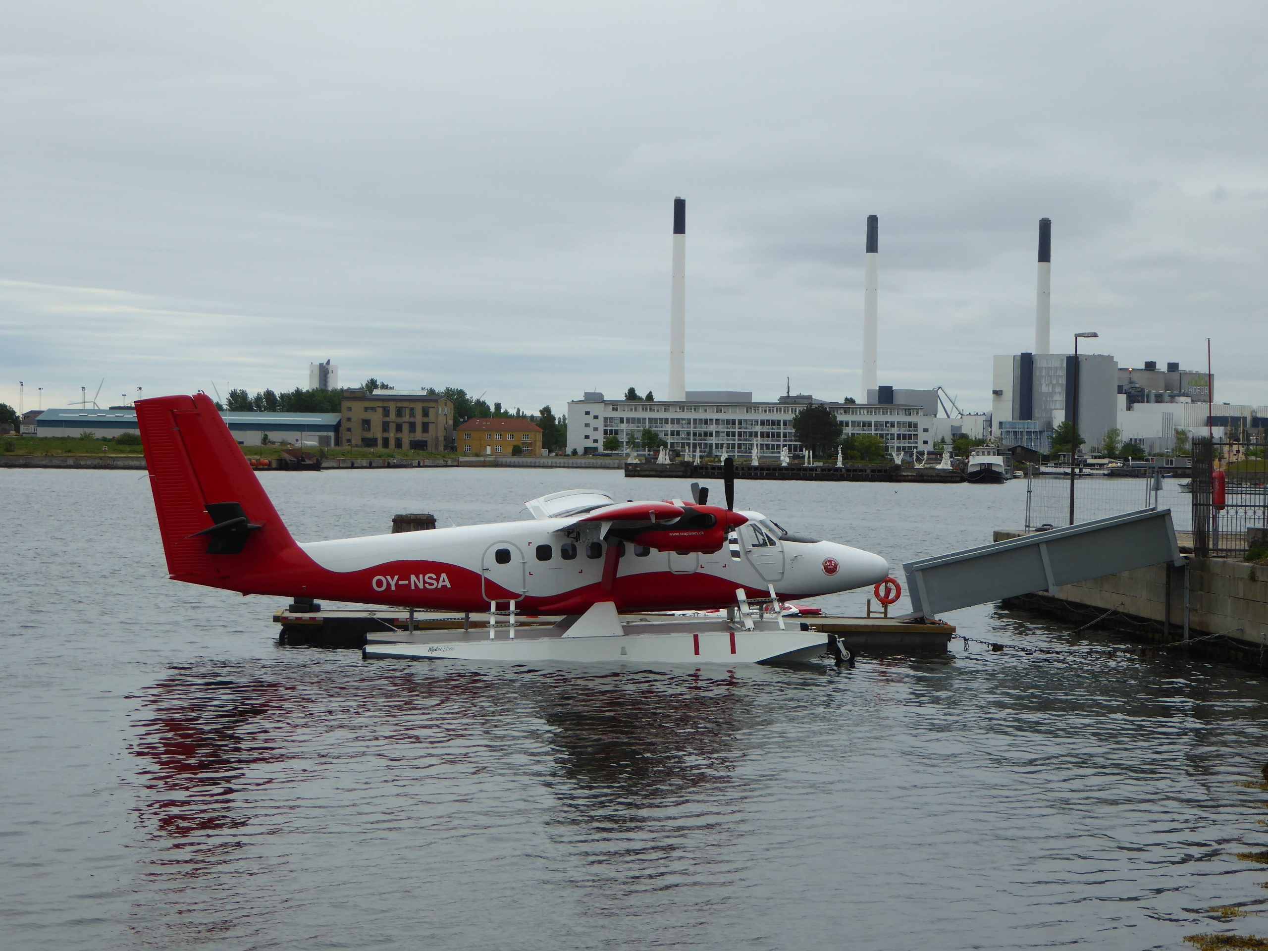 The seaplane OY-NSA of Nordic Seaplanes at Langelinie in the port of Copenhagen. The seaplane route between Copenhagen and Aarhus had been introduced the day before.